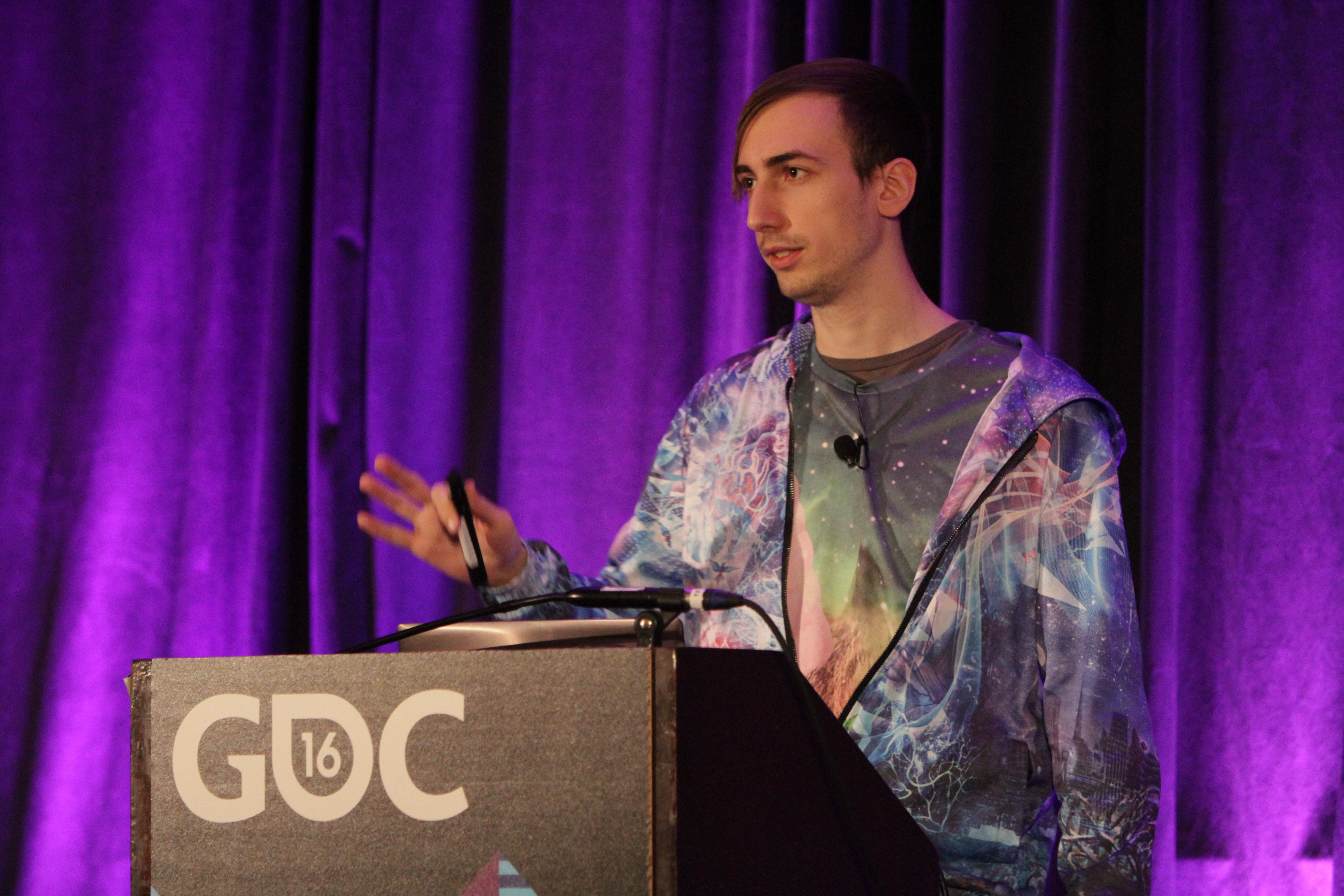 PR & Marketing Lessons Learned from 'Goat Simulator' Armin Ibrisagic | Game Designer & PR Manager, Coffee Stain Studios Location: Room 130, North Hall Date: Thursday, March 17 Time: 11:30am - 12:30pmPR & Marketing Lessons Learned from 'Goat Simulator' Armin Ibrisagic | Game Designer & PR Manager, Coffee Stain Studios Location: Room 130, North Hall Date: Thursday, March 17 Time: 11:30am - 12:30pm